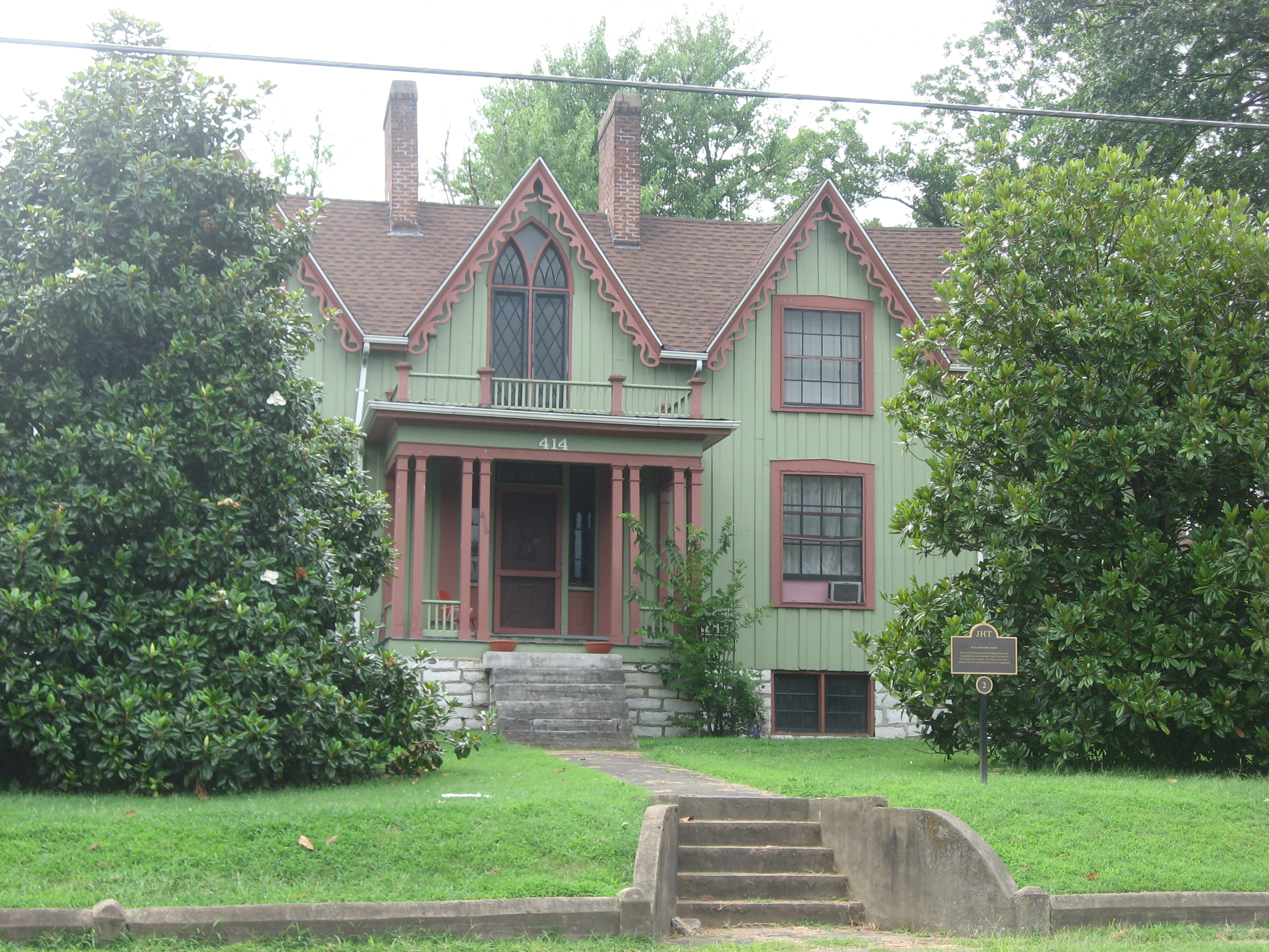 Front of the Daniel Curry House, located at 414 N. Main Street in Harrodsburg, Kentucky, United States. Built in 1857, it is listed on the National Register of Historic Places.